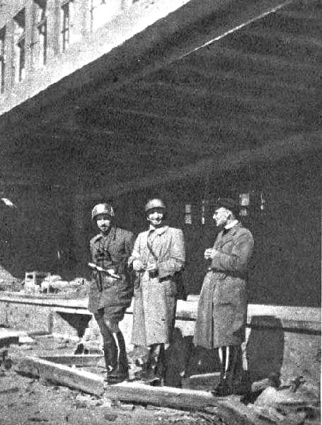 Warsaw Uprising: Zbigniewa Bryma "Zdunin", "Piotr" and chaplain captain Antoni Czajkowski "Badur" of 3rd company of Chrobry II Battalion, commanded by "Zdunin", at Mail trains station in the end of August 1944.